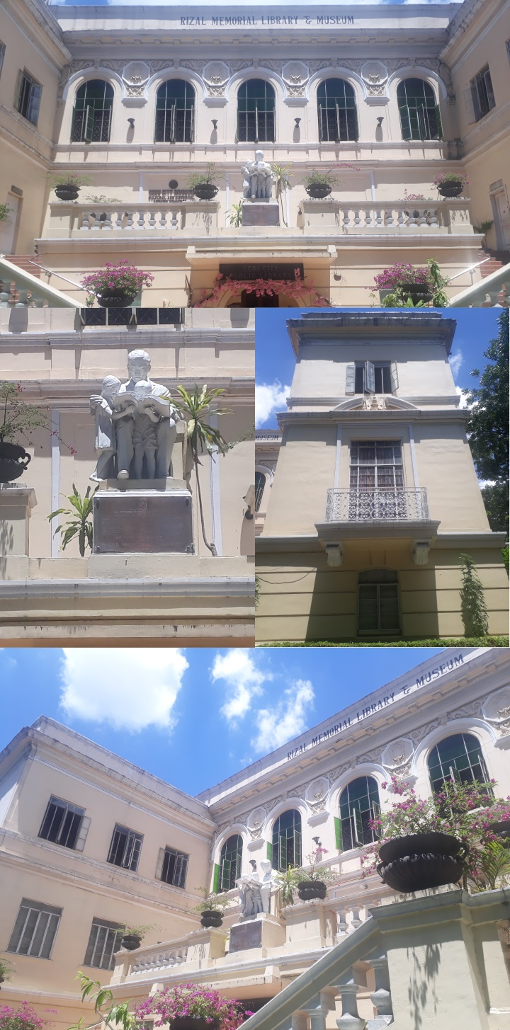 Rizal Memorial Library and Museum facade, Rizal statue, right wing tower, and view from the right